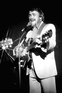 Photograph of Johnny Ashcroft performing in the late 1980s